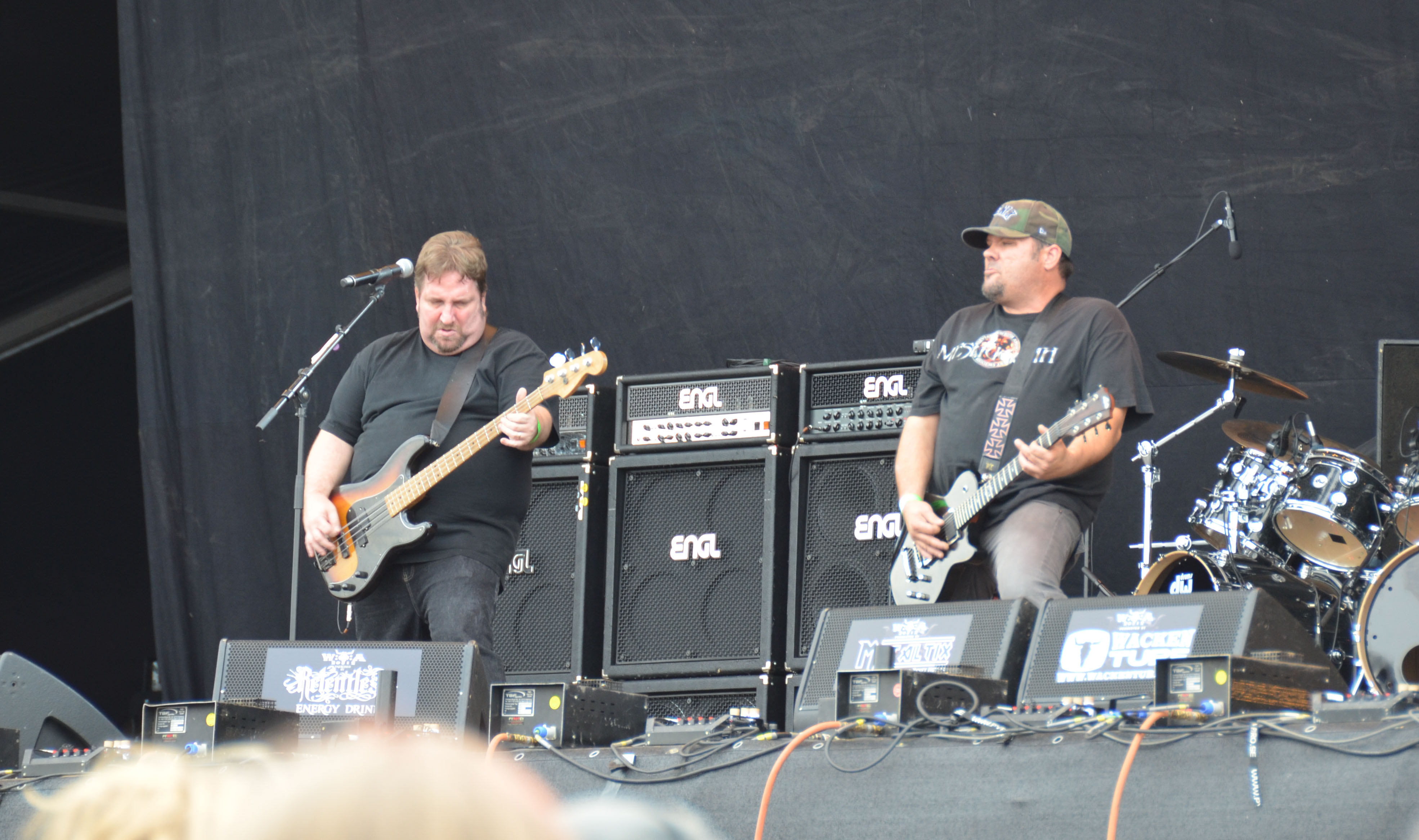 Sacred Reich at Wacken Open Air 2012